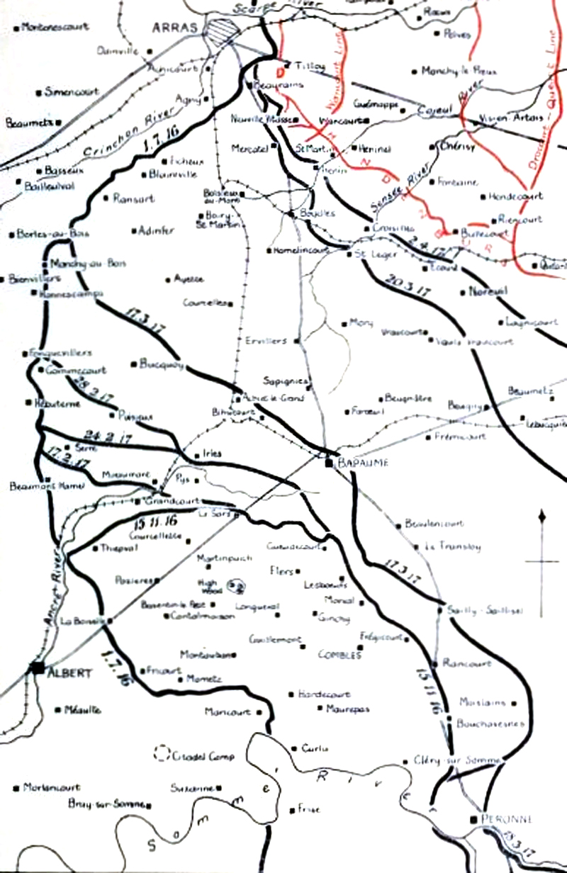 Diagram of the Ancre valley in early 1917 showing 1st Army retirements before and during Operation Alberich